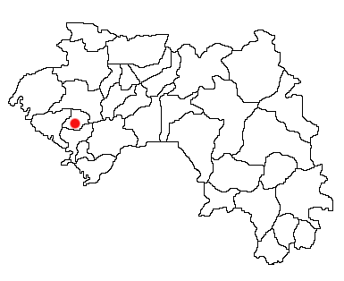 Fria, Guinea Location Map; created with the GIMP. Made by User:Acntx.